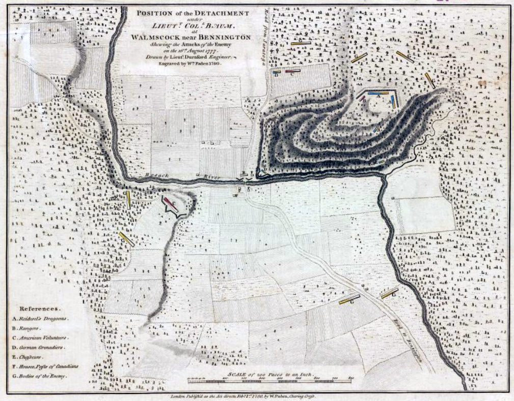 This is a map depicting the positions of the opposing forces at the 1777 Battle of Bennington, which actually took place in Walloomsac. This image has been cropped to remove borders.